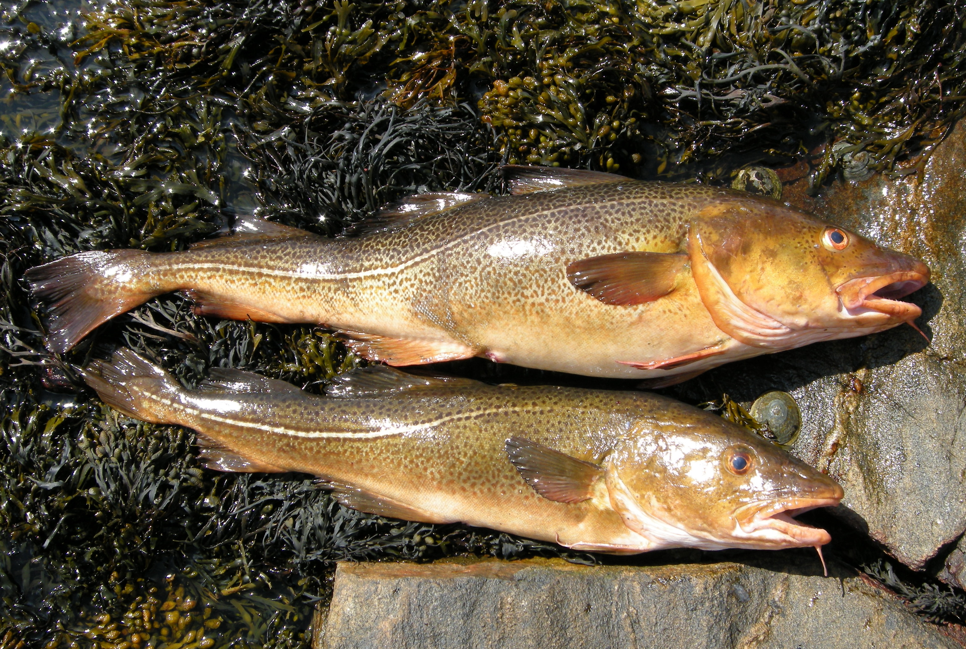 Cod (Gadus morhua) Catched near Ramsøy in Norway